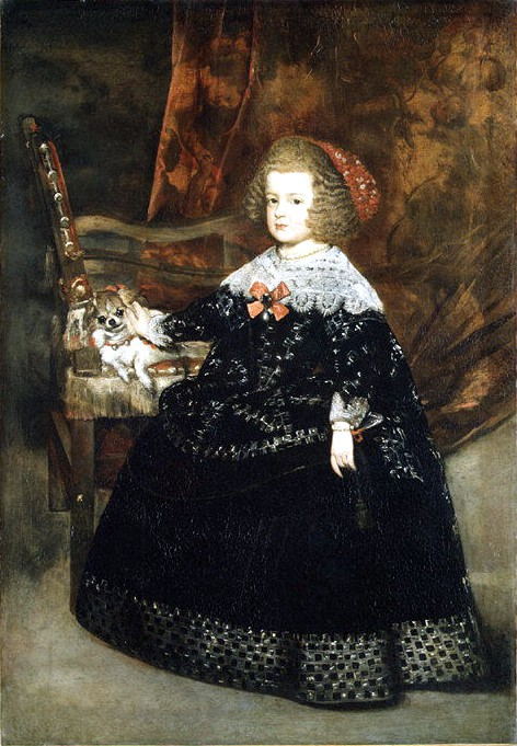 Portrait of Maria Theresa of Austria while an infant (1638-1683)